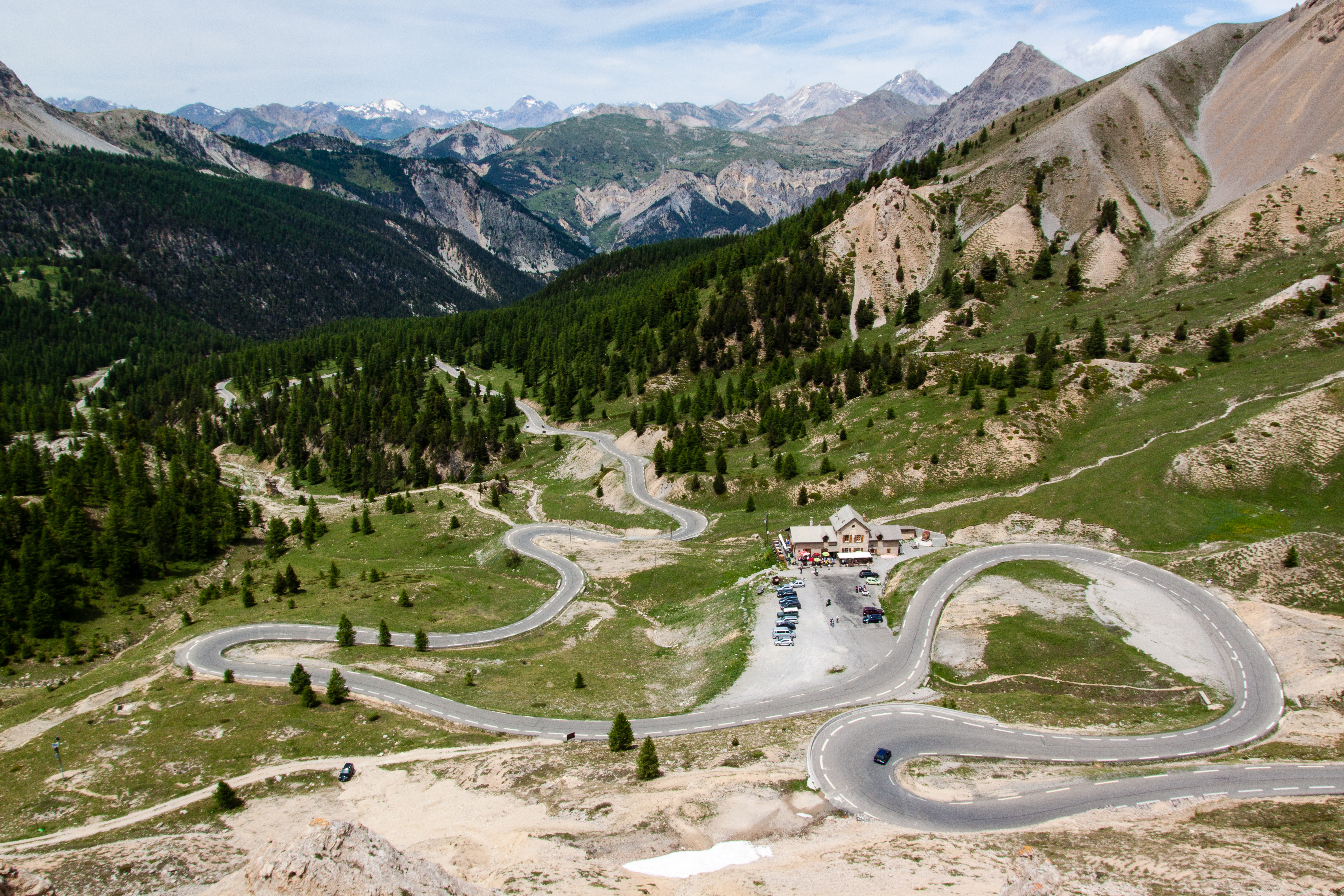 Also available on Chromecast...